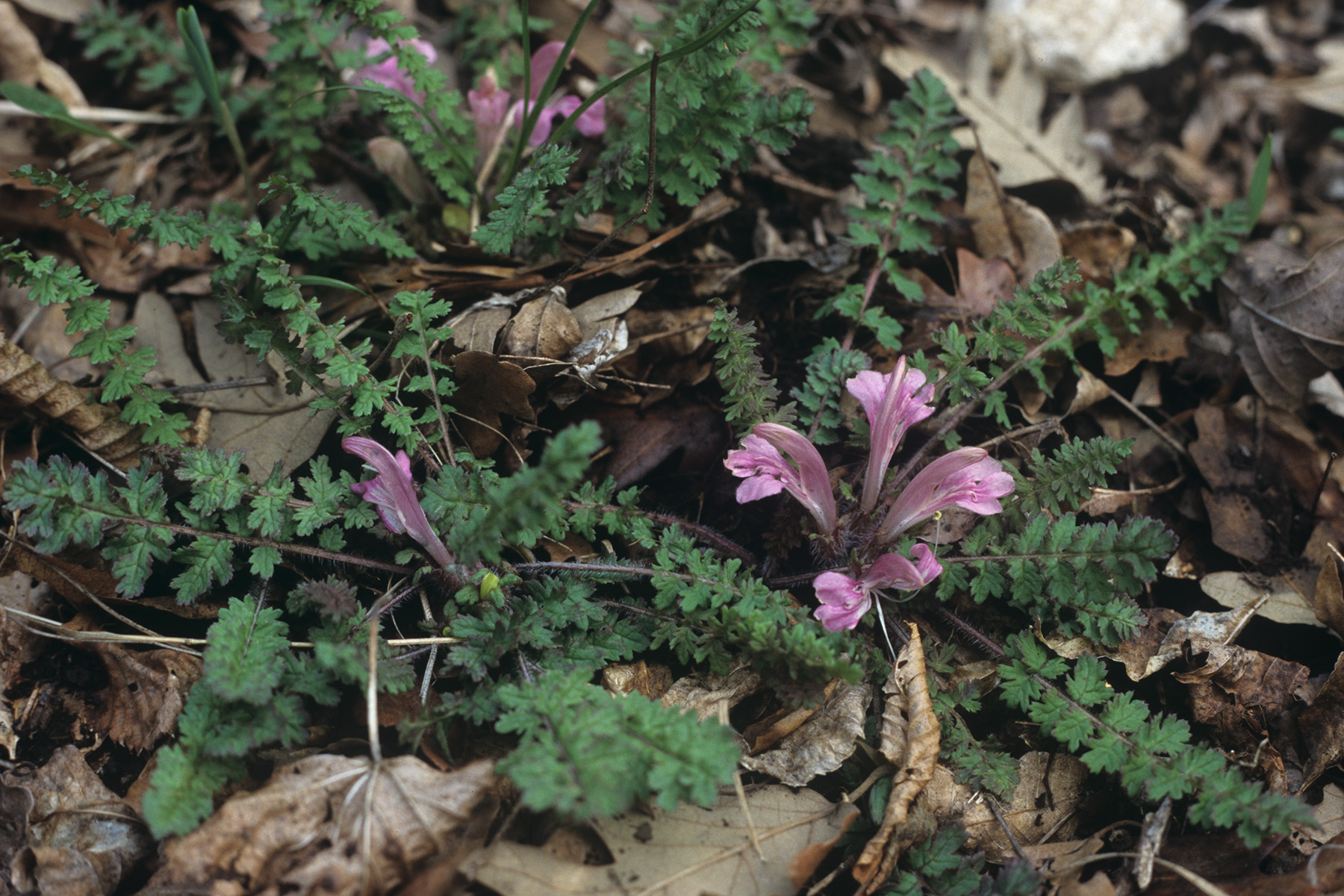 Pedicularis acaulis Postojna, Slovenia